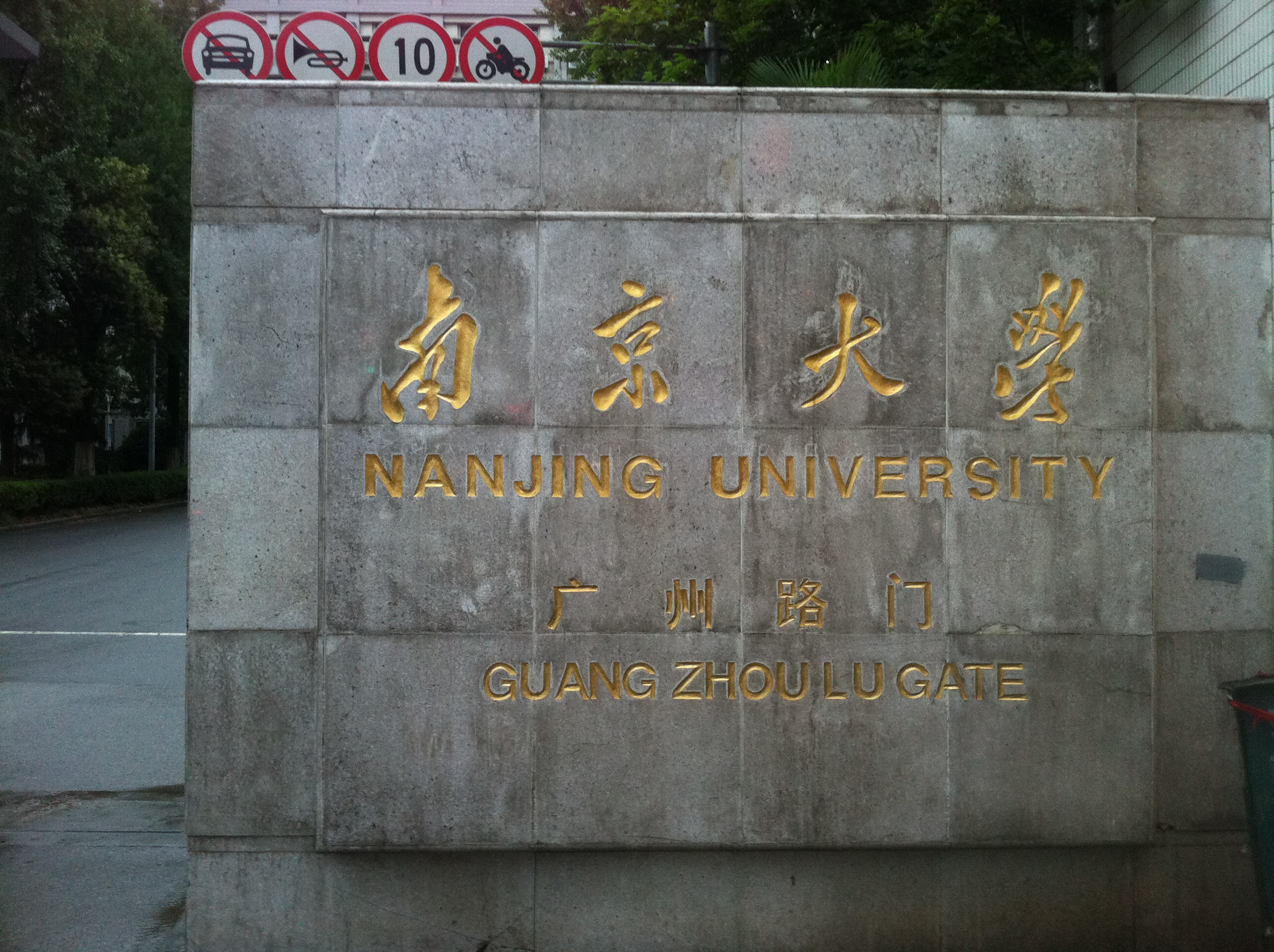 This is the other entrance.